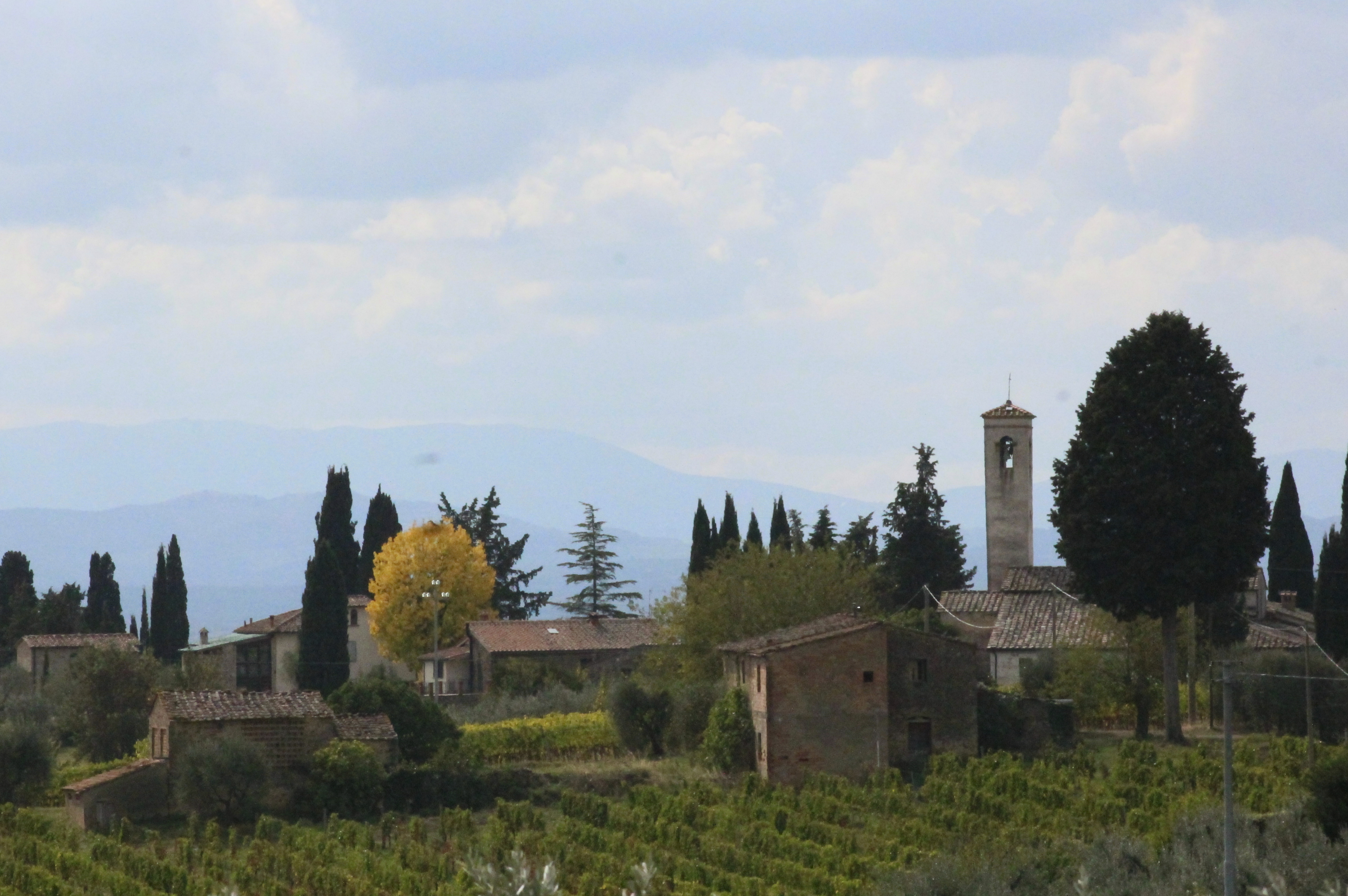 Monsanto, village of Barberino Val d'Elsa, Comune in the Metropolitan City of Florence, Tuscany, Italy